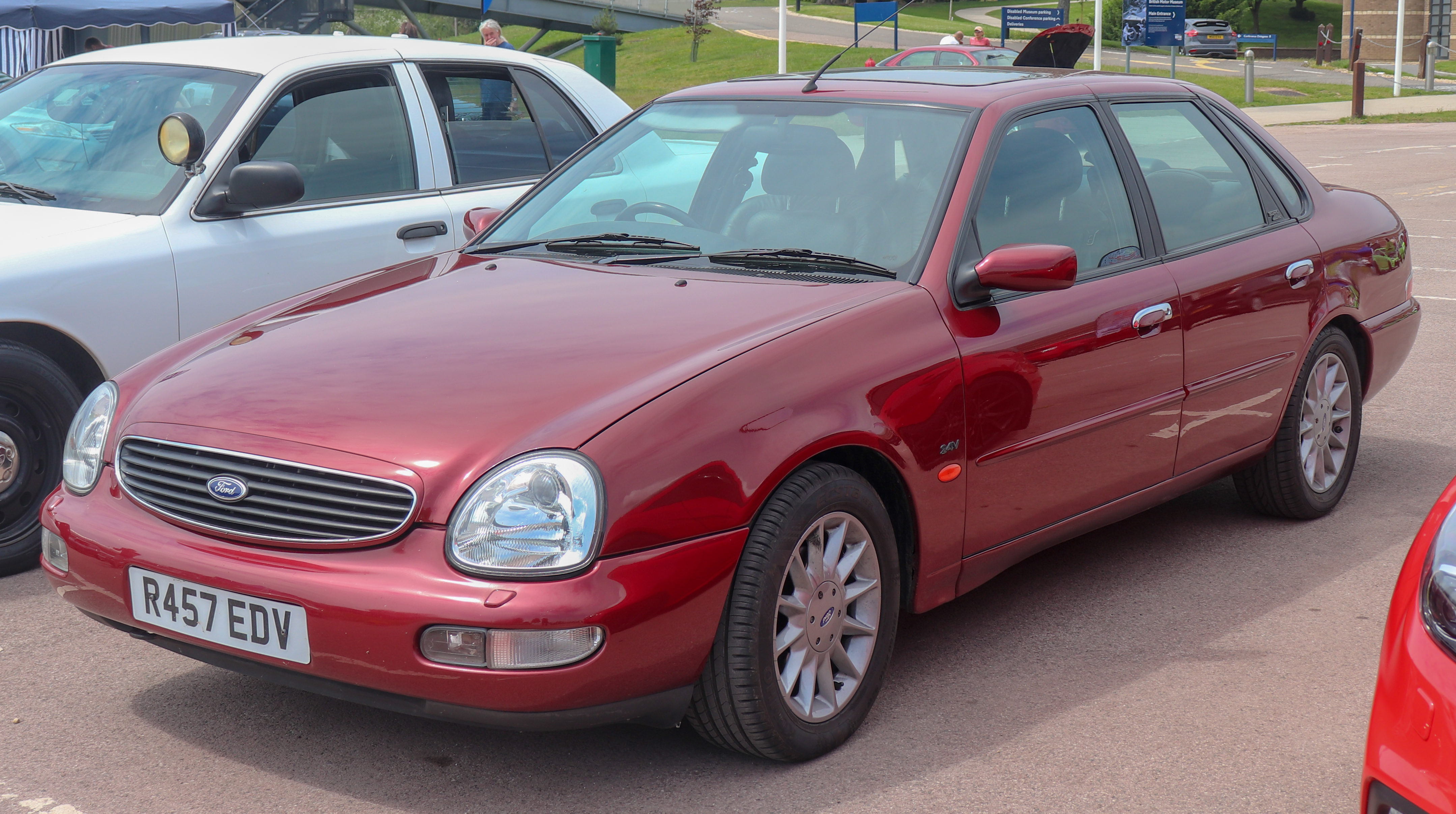 1998 Ford Scorpio Ultima 24V Automatic 3.0 Front Taken at the Ford Nationals 2019, British Motor Museum, Gaydon